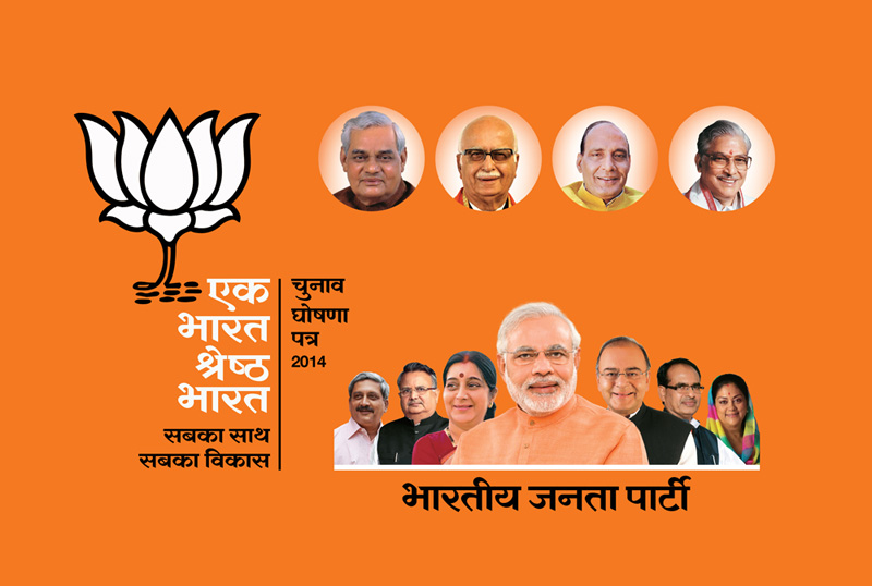 The BJP released its Manifesto for 2014 Lok Sabha Elections